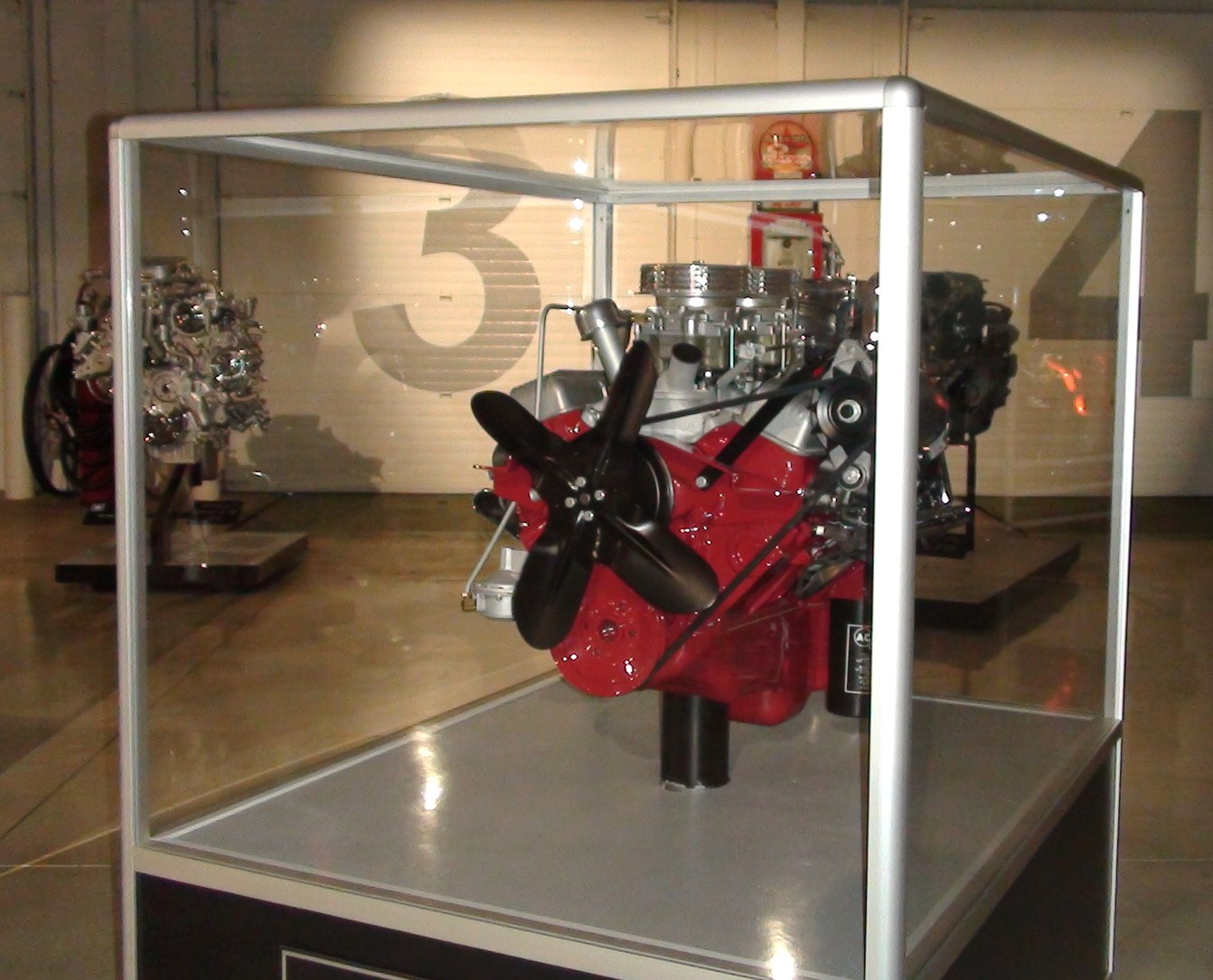 GM Heritage Center.